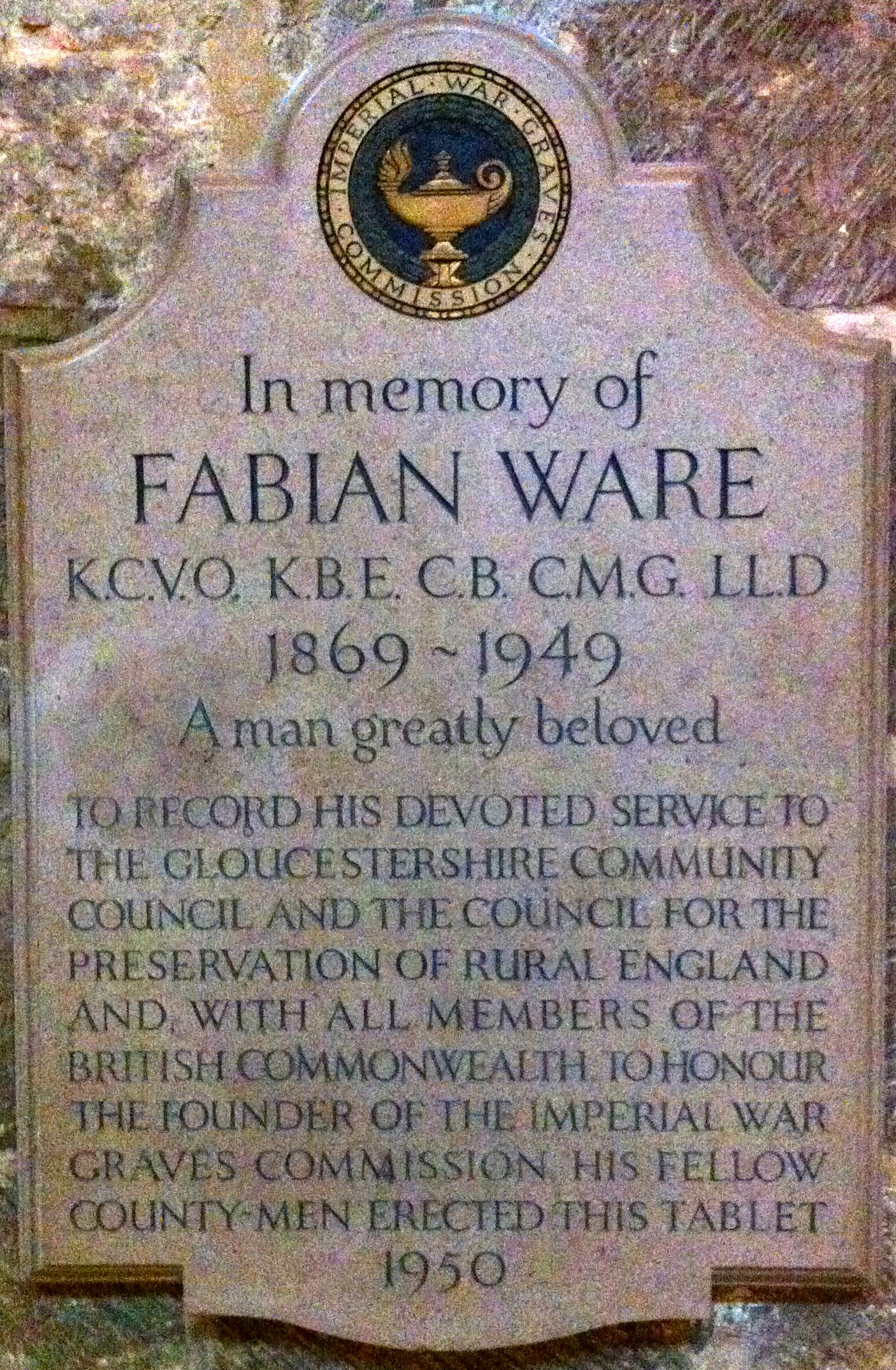 Fabian Ware 1869 - 1949